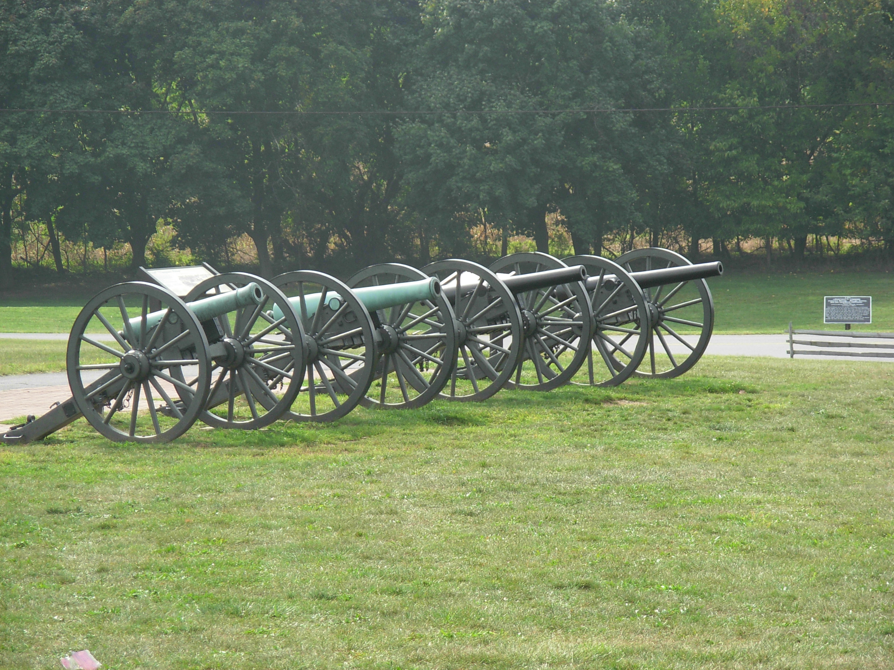 Cannons Memorial at the Antietam National Battlefield, in Maryland.